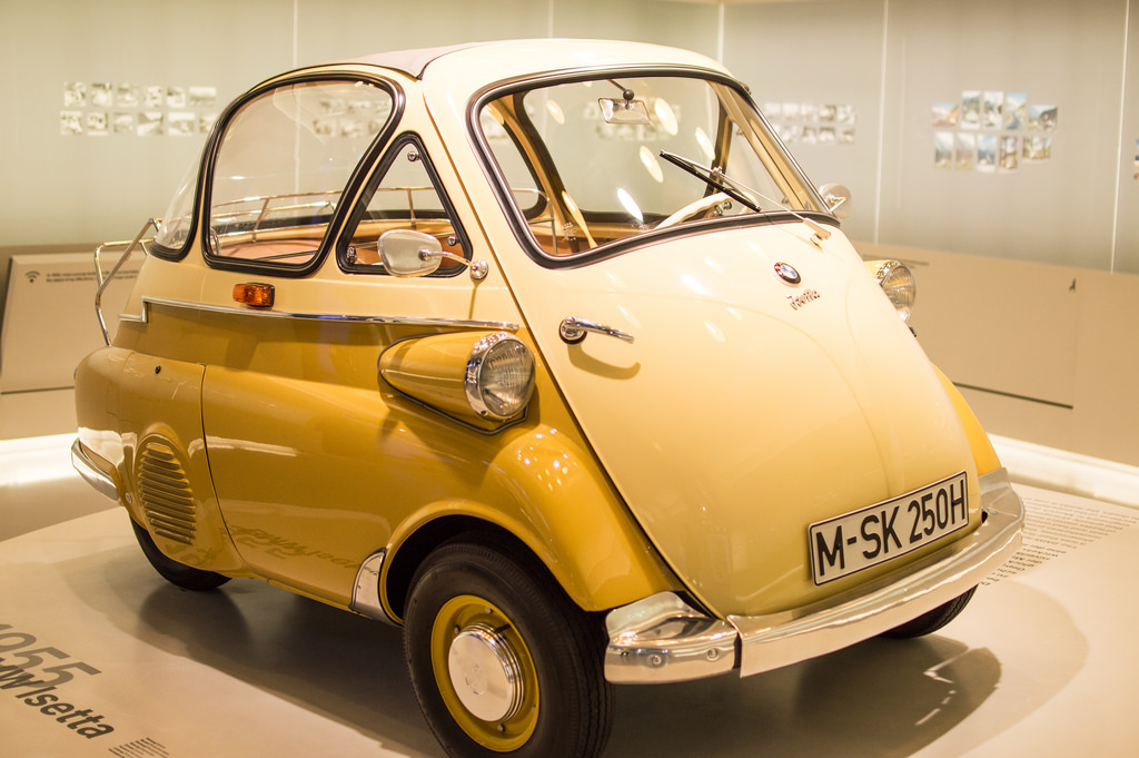 BMW Isetta with a front opening door in BMW Museum